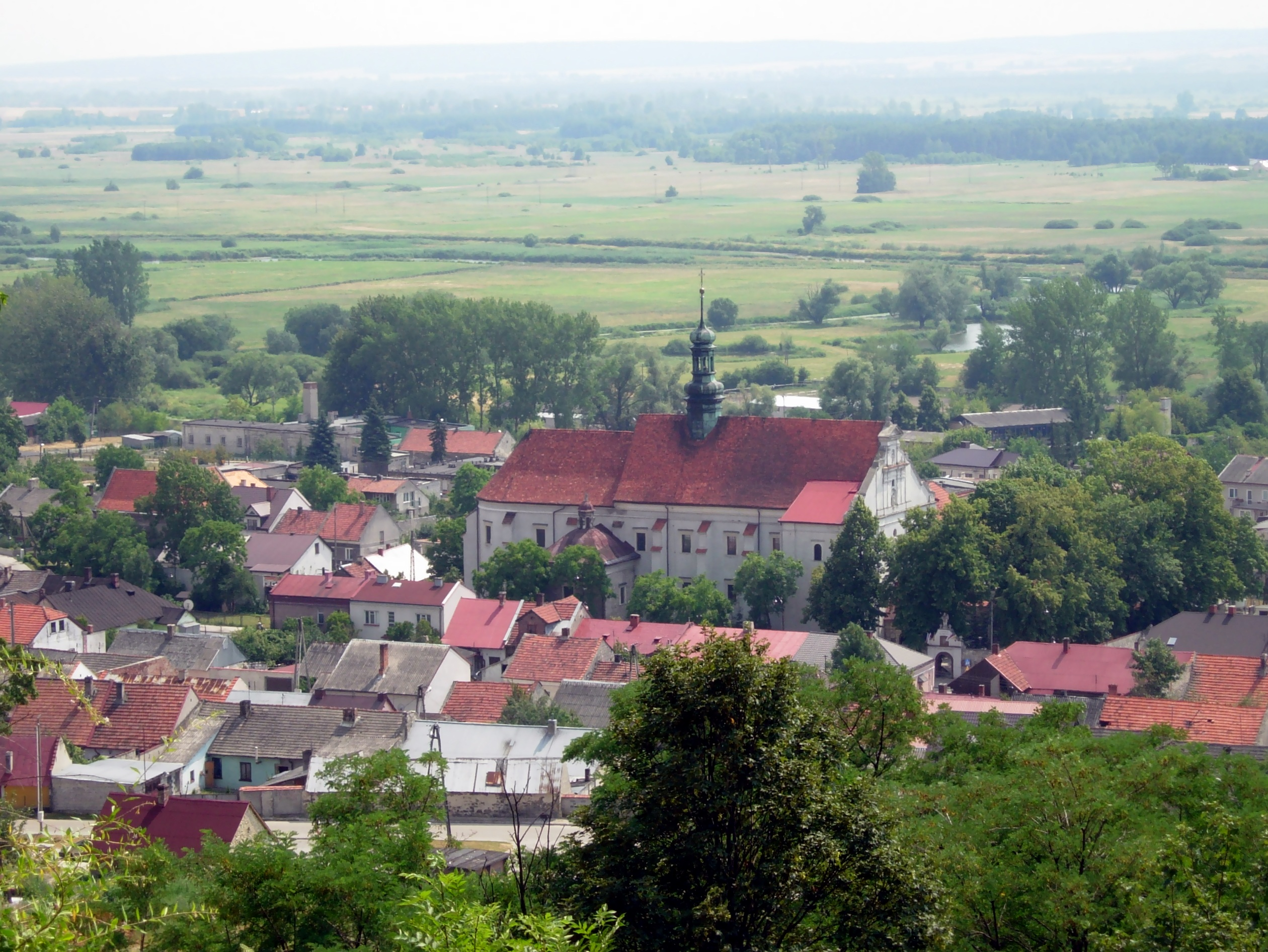 View from Mount St. Anne in Pińczów; Mirów quarter and the valley of Nida River